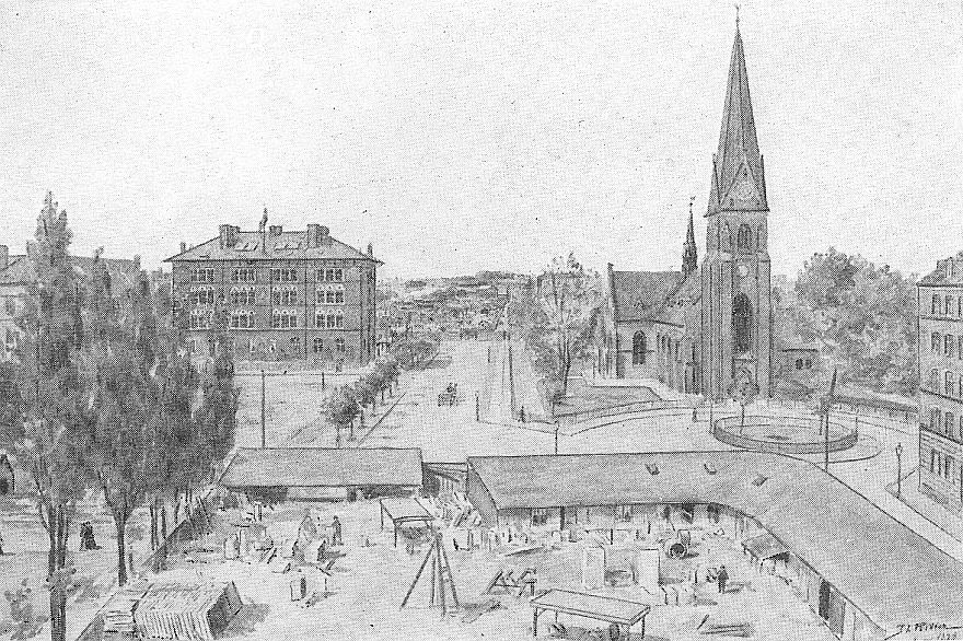 Drawing of Hans Tavsensgade, as seen from Kapelvej, in the Nørrebro district of Copenhagen, Denmark. Hellig Kord Kirke is seen to the right and Hellig Kors Kirkes Skole is seen to the left.